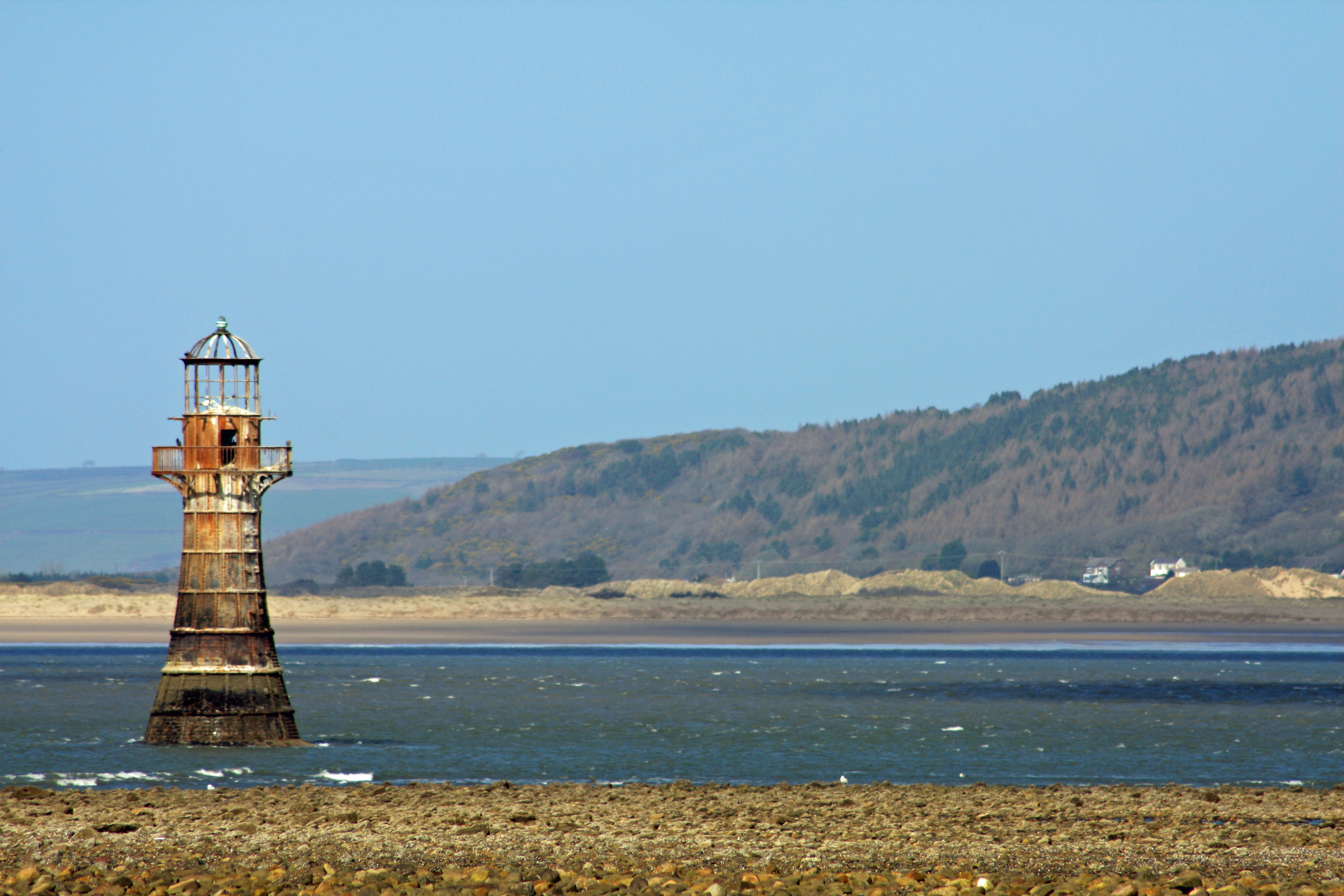 Whiteford Lighthouse, located near Whiteford Sands, southern Wales